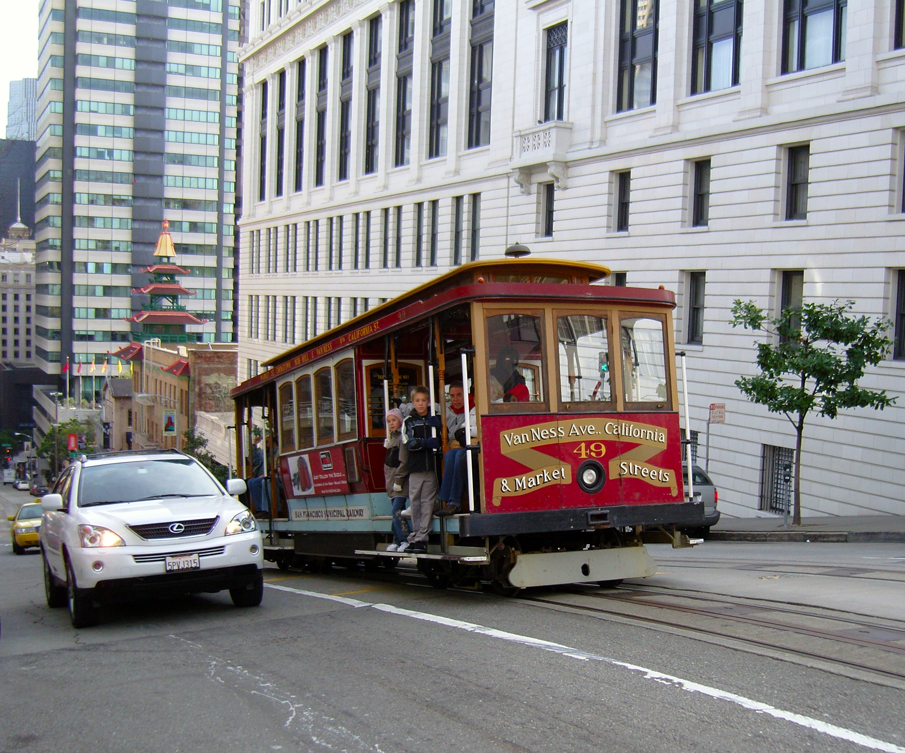 Cable car racing a Lexus uphill from Chinatown at San Francisco, California.